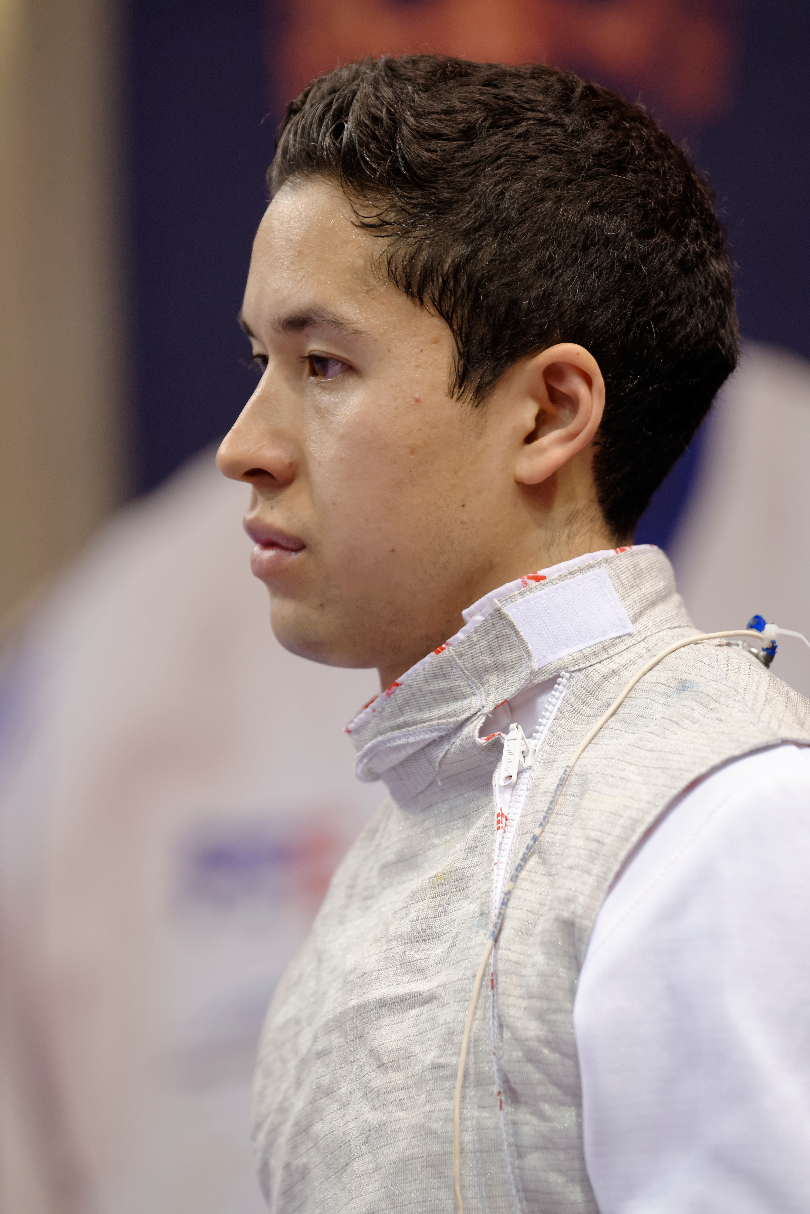 Mexico's Daniel Gómez on qualification day of the 2016 Challenge International de Paris, a men's foil World Cup competition.